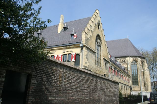 Kruisheren Convent, Maastricht, the Netherlands